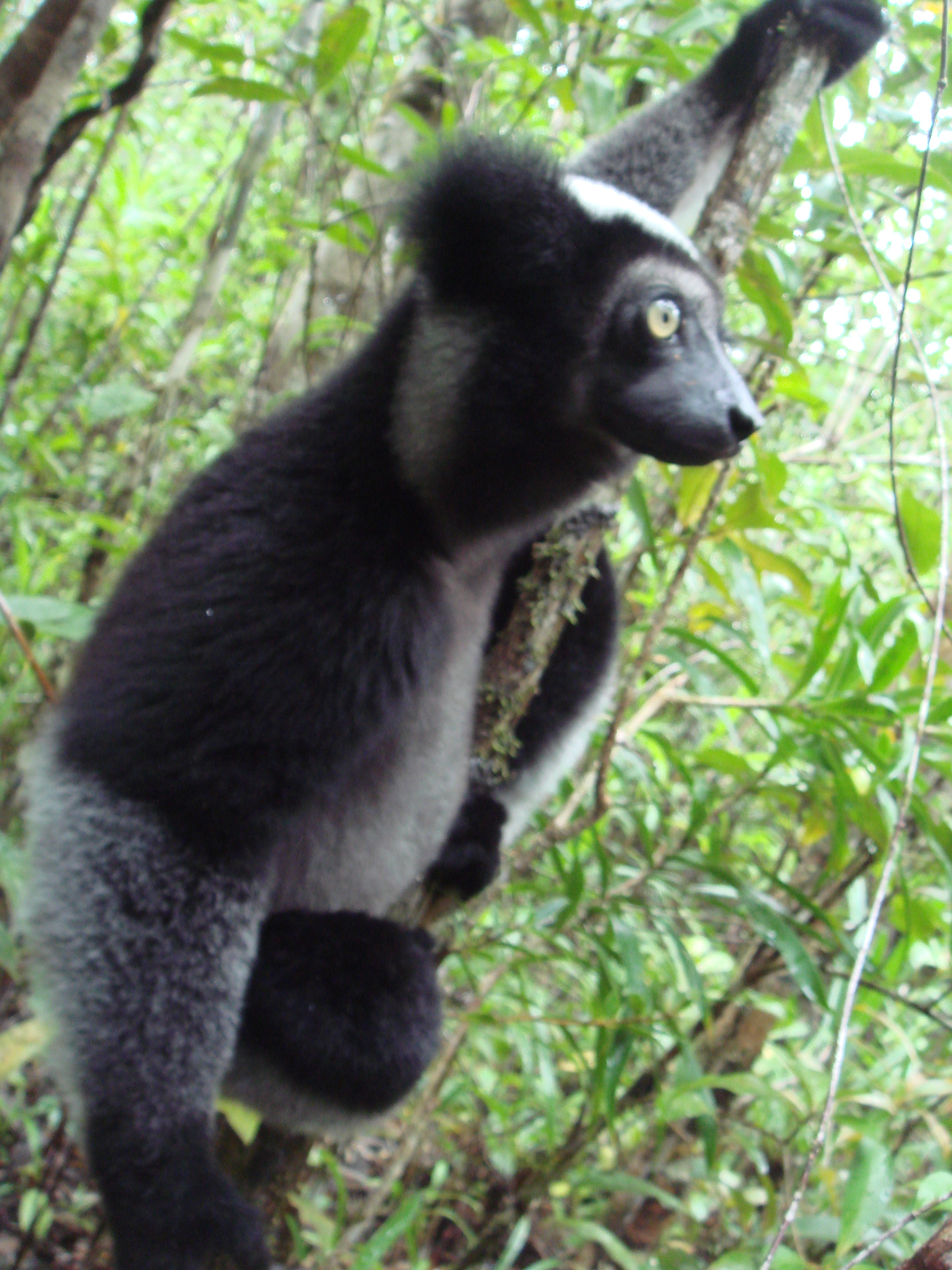 Indri (Babakoto)